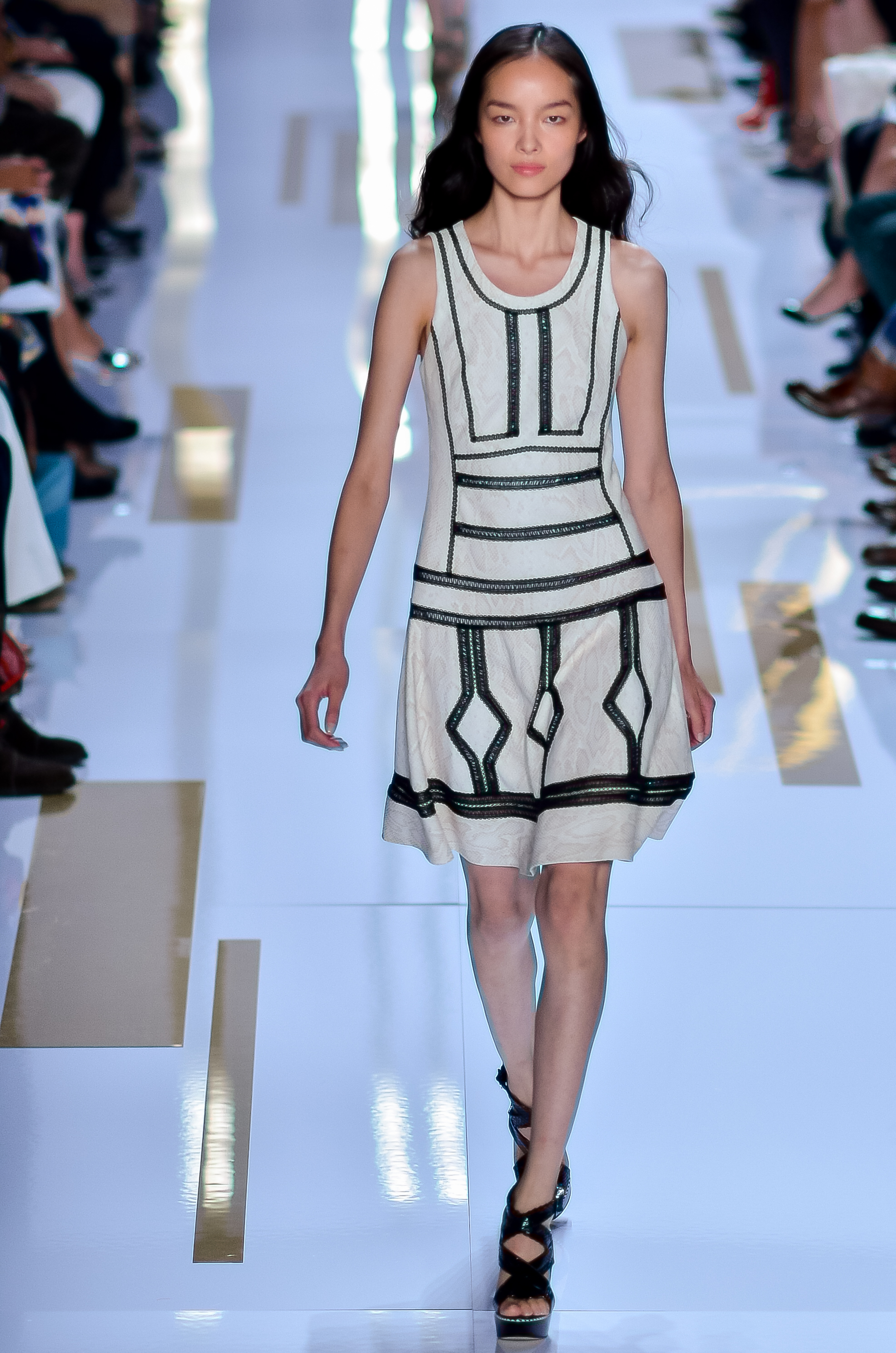 Model Fei Fei Sun at the Diane von Fürstenberg Spring/Summer 2014 fashion show on September 8, 2013 at New York Fashion Week. Photo by Christopher Macsurak.